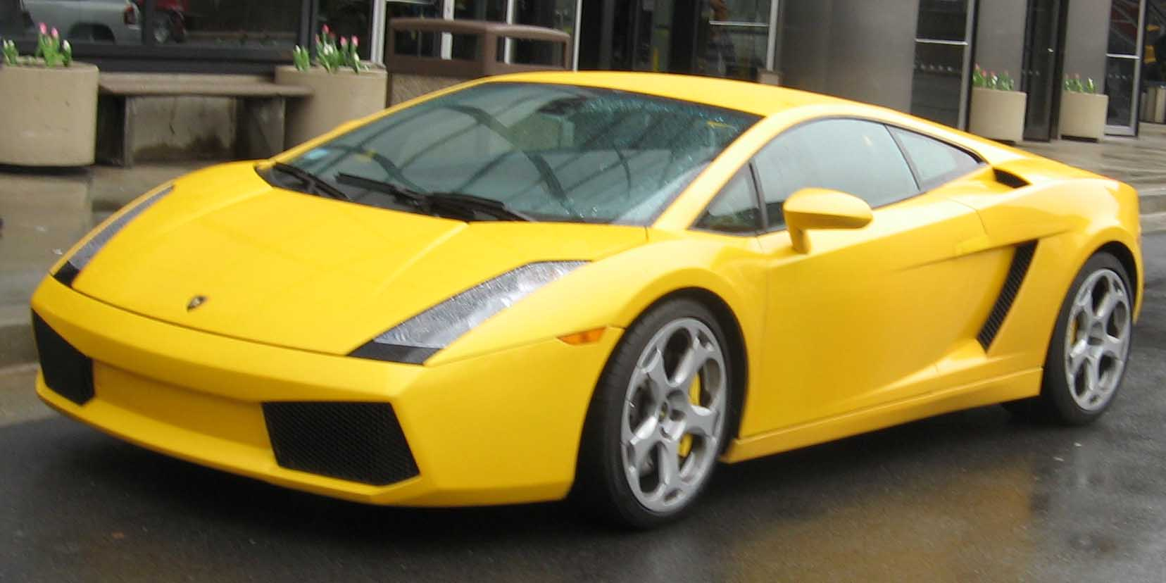 Lamborghini Gallardo photographed in New York City, USA. Galben Lamborghini Gallardo